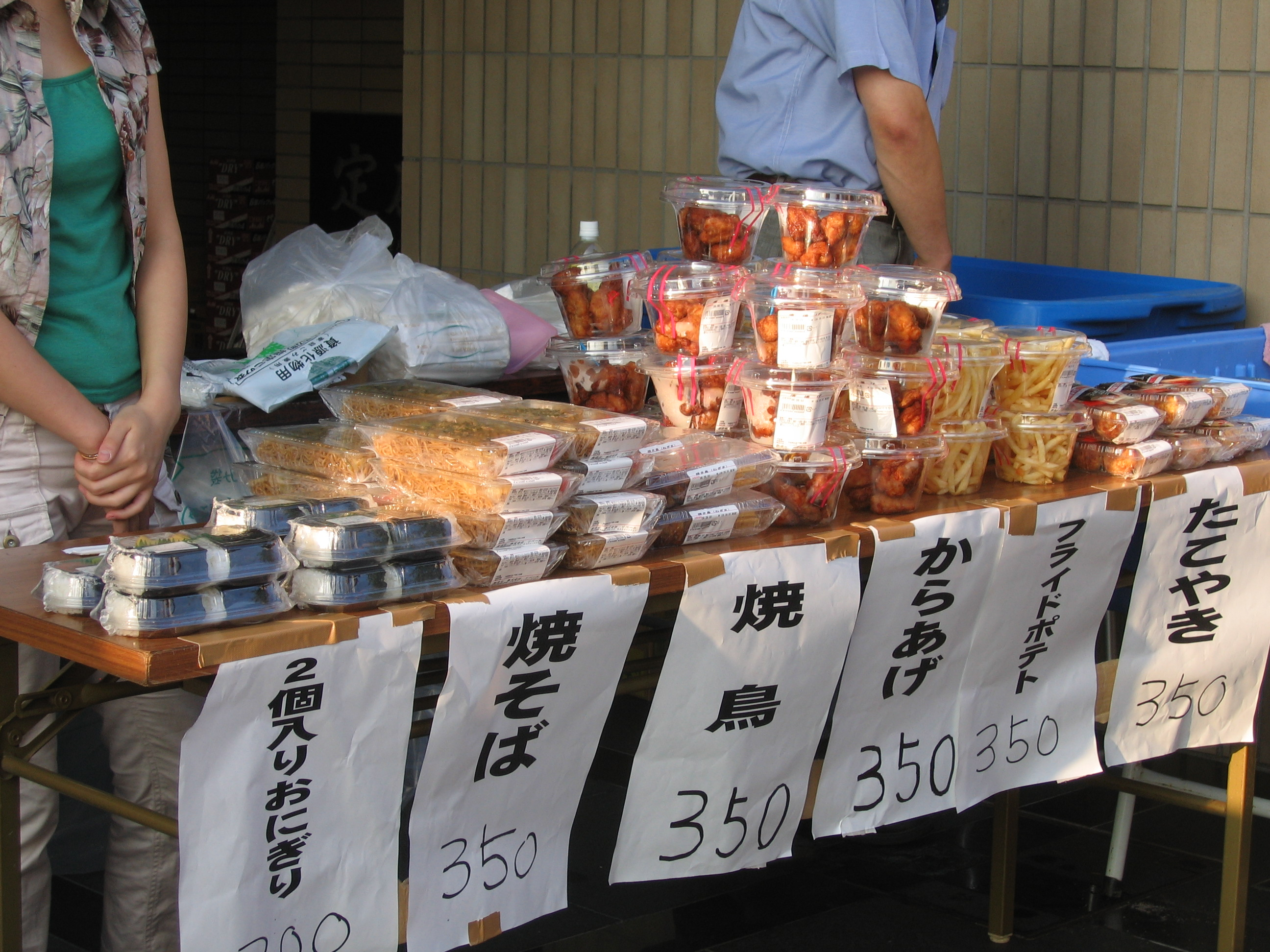 Food for the audience